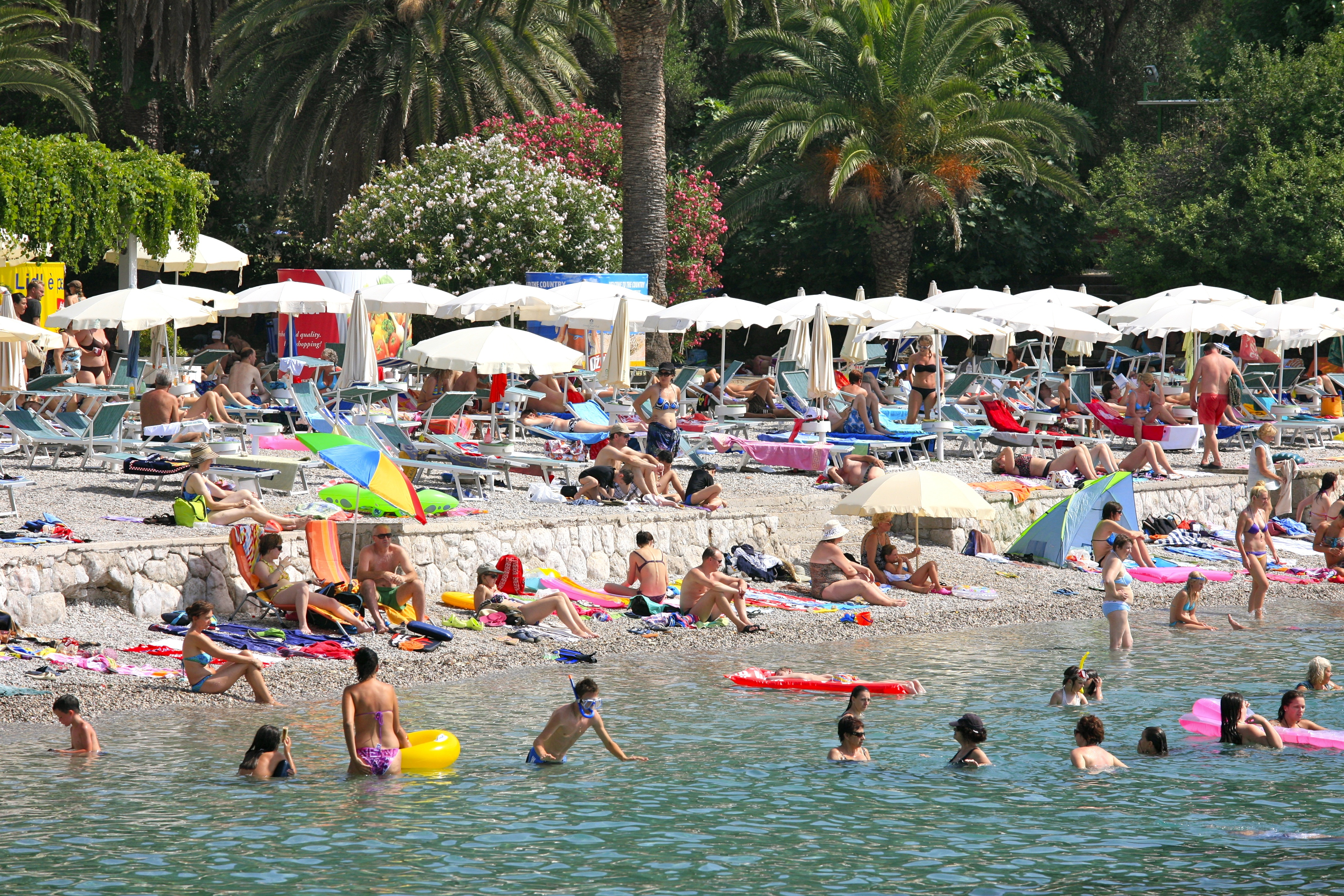 Relaxing at Lapad Beach, Dubrovnik.